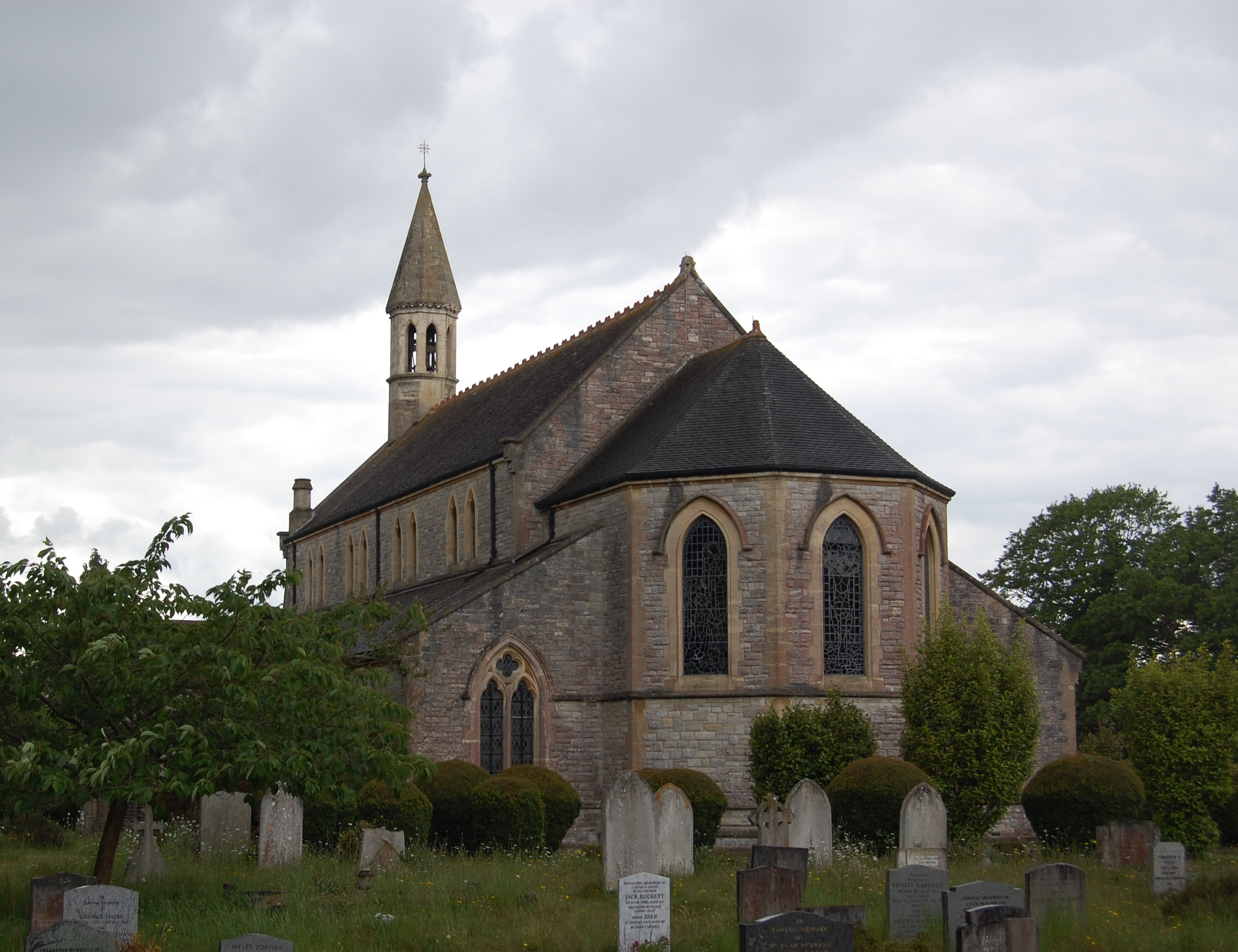 St Mary's Church, Church Road, Hook, Warsash, Borough of Fareham, Hampshire. The Anglican parish church of Warsash, situated in the Hook area.